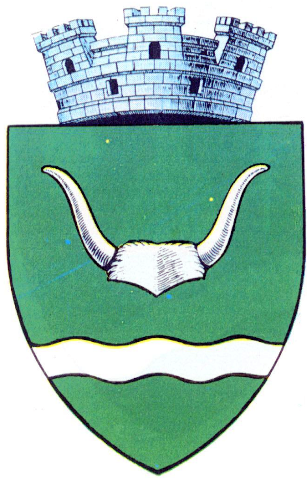 Interwar coat of arms of Vashkivtsi, Storojineț County, Kingdom of Romania.